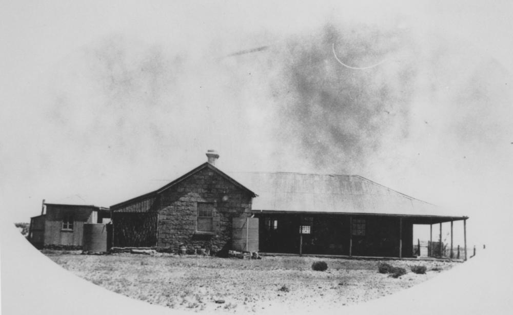 Police Station and Court House, Birdsville, ca. 1925 Constable William Boyle took this photograph of the police station. He was in Birdsville between 1922 and 1926.